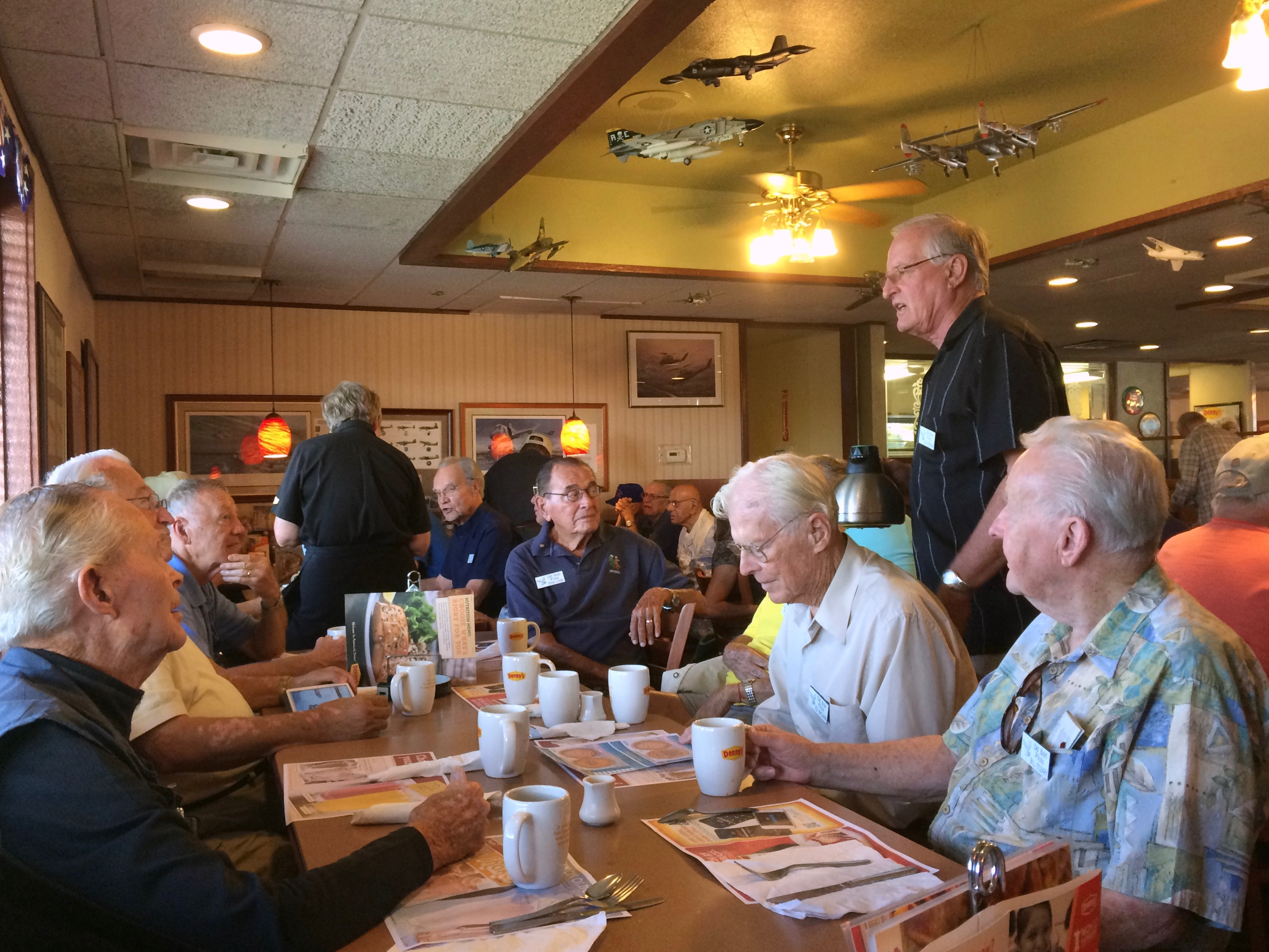 The Old Bold Pilots Association (OBPA) gather for breakfast on September 24, 2014 at the Denny's restaurant in Oceanside, California, USA.